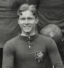 Photograph of Fernand Nisot, Belgium national football team player, at age 17